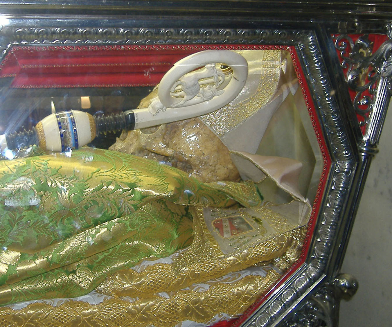 The body of St Bassiano in Lodi's Cathedral Crypt, Italy.